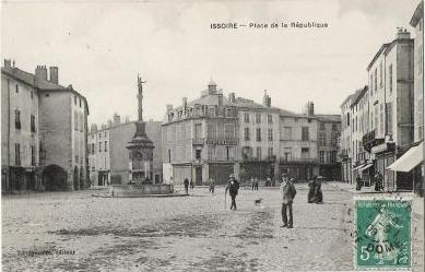 Postcard of France - Department of Puy-de-Dôme (63) - Issoire, place de la République - Year 1909